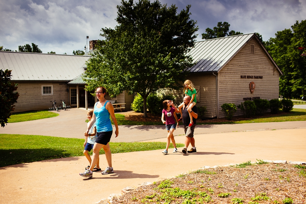 30156903A